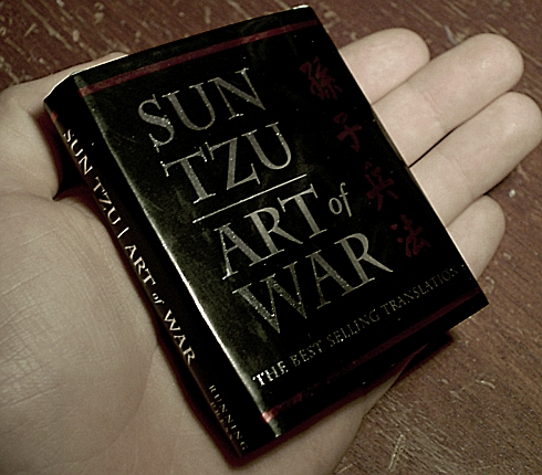 en:2003 Running Press Miniature Edition™ of Sun Tzu's The Art of War (ISBN 0-7624-1598-3). en:1994 Ralph D. Sawyer translation. The book is 7 cm wide and 8.5 cm tall, human hand shown for scale. Taken and released into the public domain by User:Kallemax.